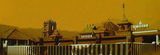 This is the west view of Swamithope pathi, the religious headquaters of Ayyavazhi.